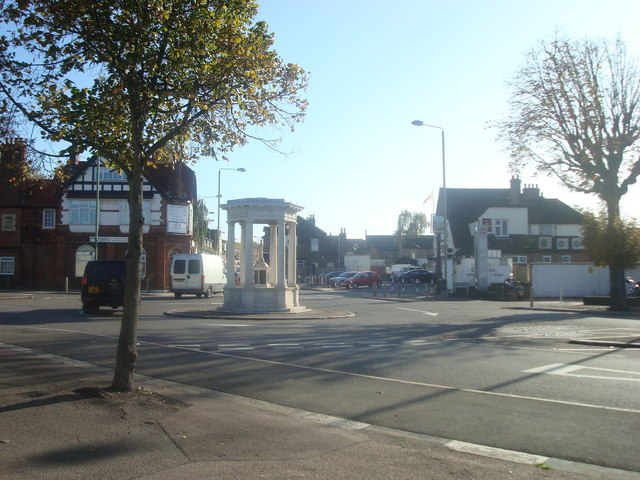 Mottingham War Memorial